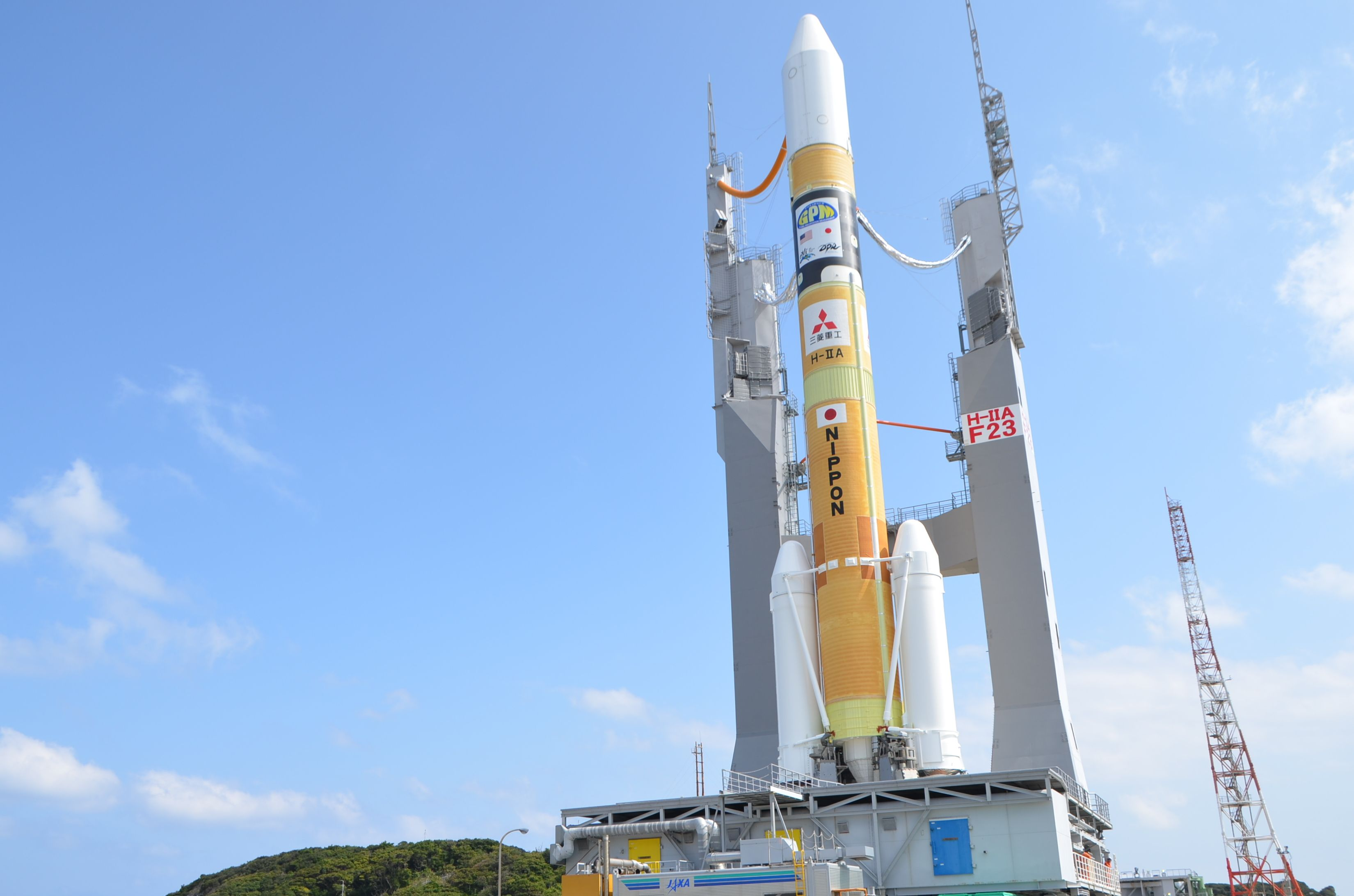 A Mitsubishi Heavy Industries (HMI) H-IIA rocket with the NASA-Japan Aerospace Exploration Agency (JAXA), Global Precipitation Measurement (GPM) Core Observatory onboard is during roll out at the Tanegashima Space Center, Thursday, Feb. 27, 2014, Tanegashima, Japan. Once launched, the GPM spacecraft will collect information that unifies data from an international network of existing and future satellites to map global rainfall and snowfall every three hours. Credit: Mitsubishi Heavy Industries, Ltd. NASA image use policy. NASA Goddard Space Flight Center enables NASA’s mission through four scientific endeavors: Earth Science, Heliophysics, Solar System Exploration, and Astrophysics. Goddard plays a leading role in NASA’s accomplishments by contributing compelling scientific knowledge to advance the Agency’s mission. Follow us on Twitter Like us on Facebook Find us on Instagram